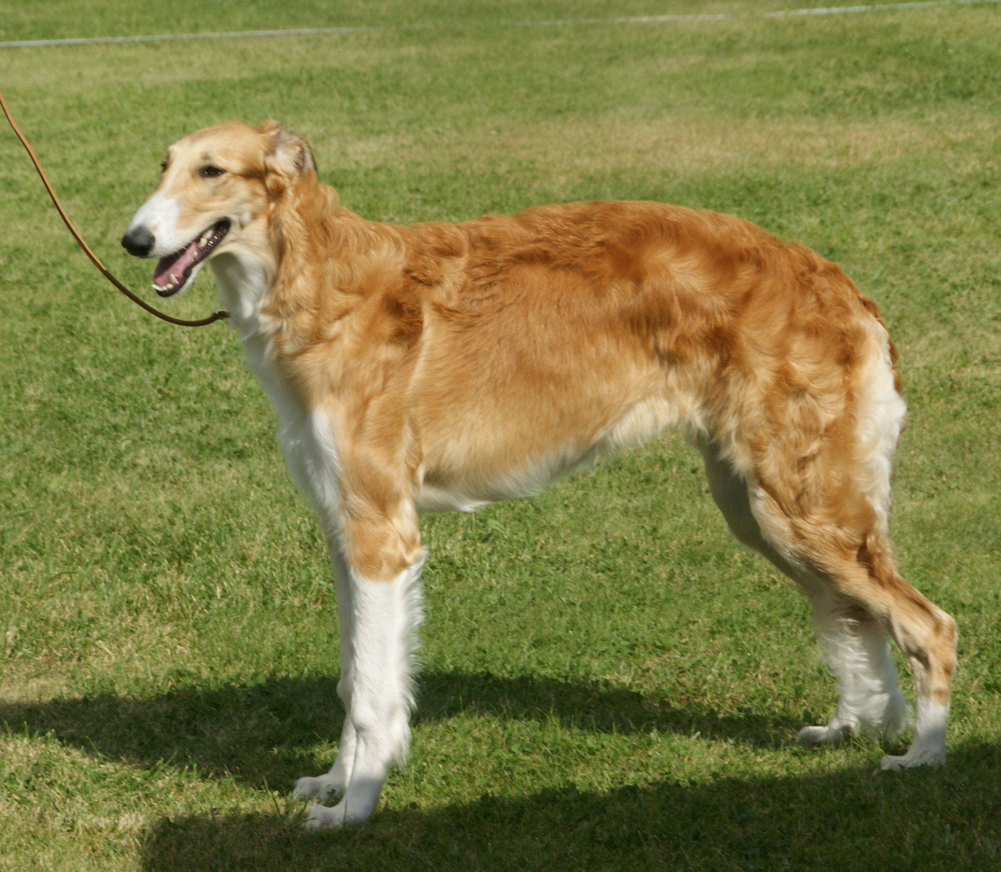 Russian Wolfhound Borzoi, red & white, female.